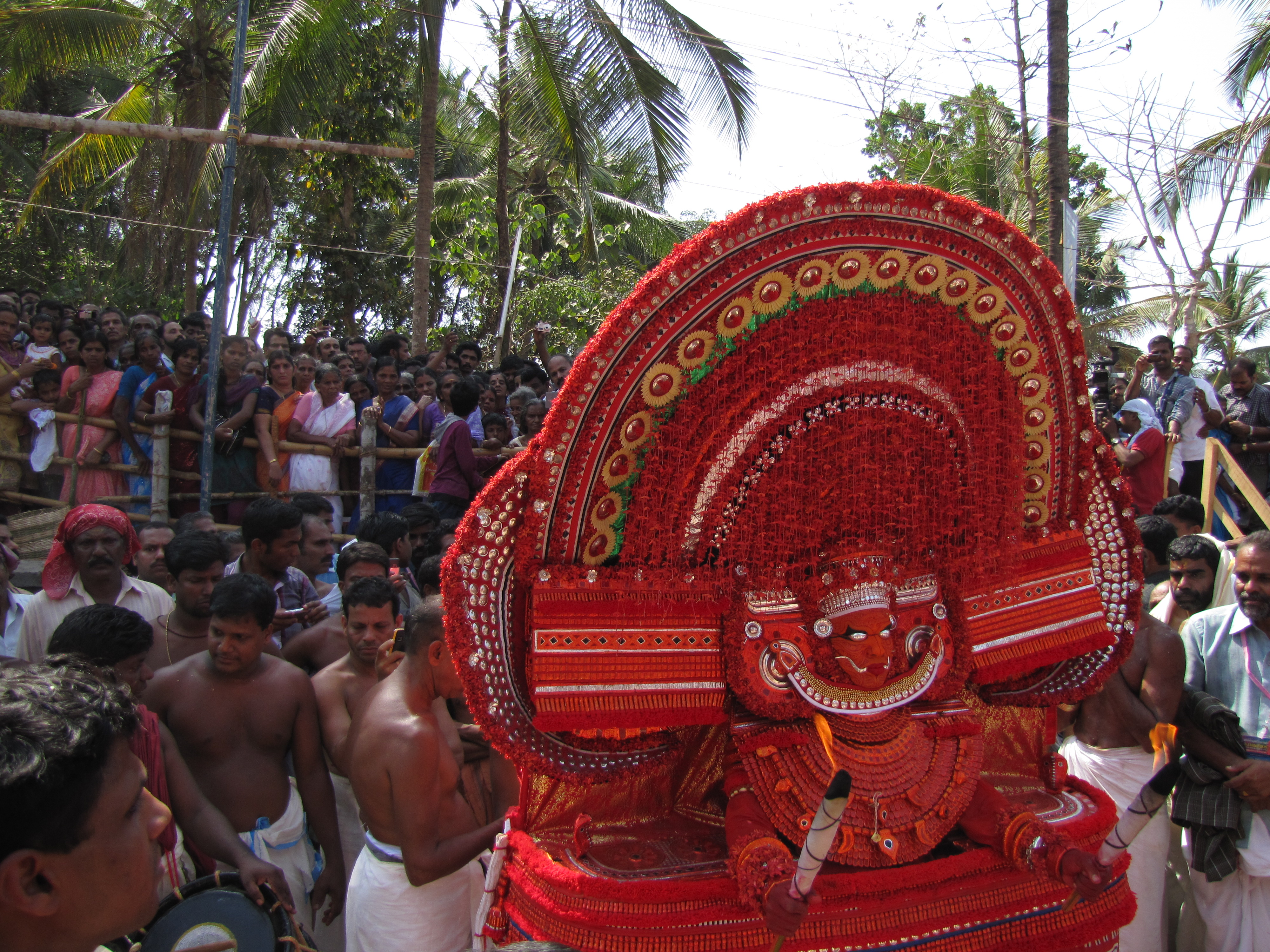 Muchilottu Bhagavathi at Muchilottu Bhagavathi Temple, Koovery